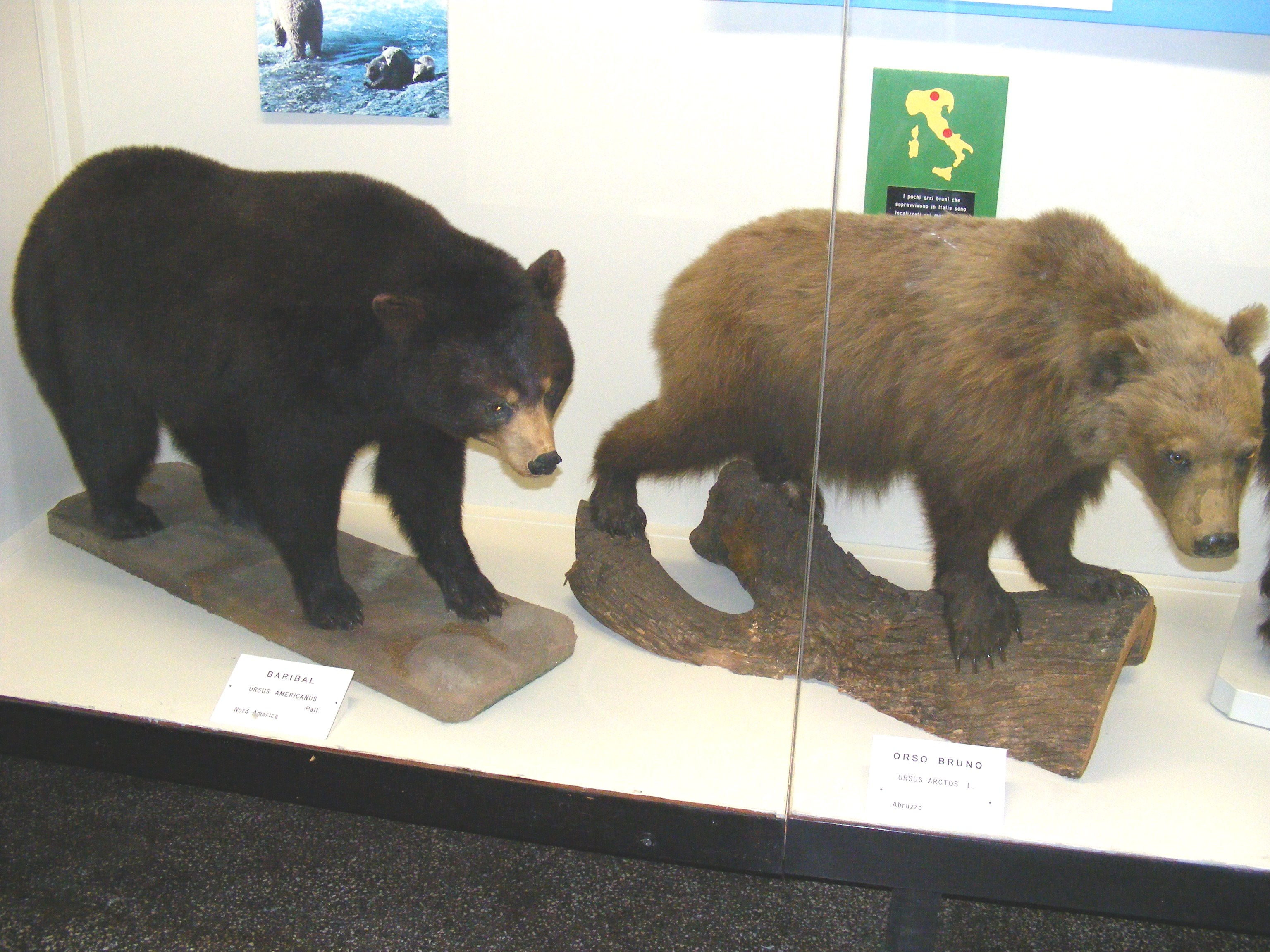 An American black bear and a European brown bear in the Natural History Museum of Genoa